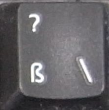 Key at position E11 (according to the ISO/IEC 9995-1 reference grid) of a German computer keyboard showing a T1 layout according to the German standard DIN 2137-01:2012-06